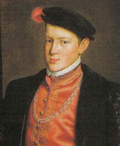 Portrait of João Manuel, Prince of Portugal (1537-1554)